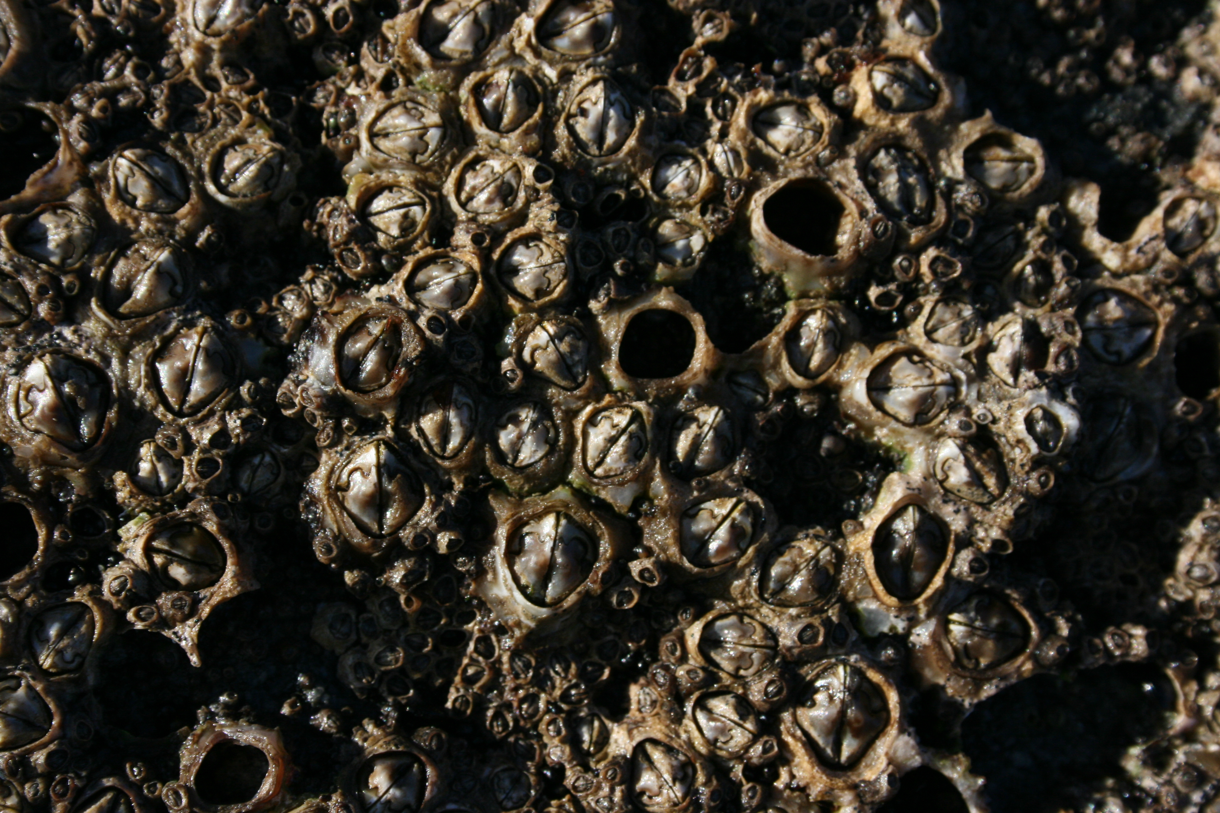 Photo of shoreline barnacle, Chamaesipho brunnea. In natural habitat, shows columnar growth of crowded colony.